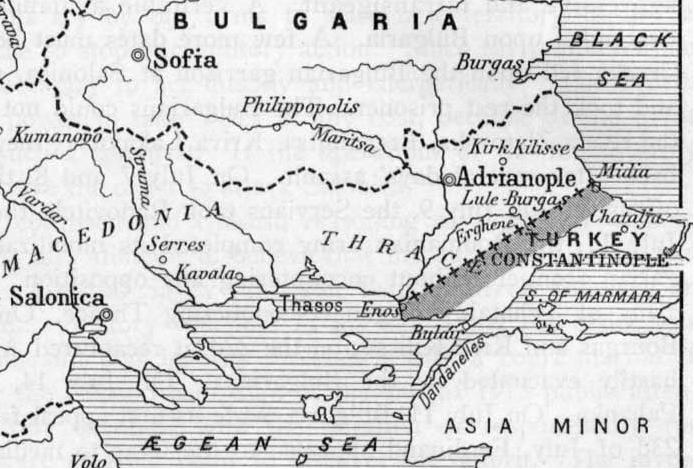 The Midia-Enoz Line in Eastern Thrace